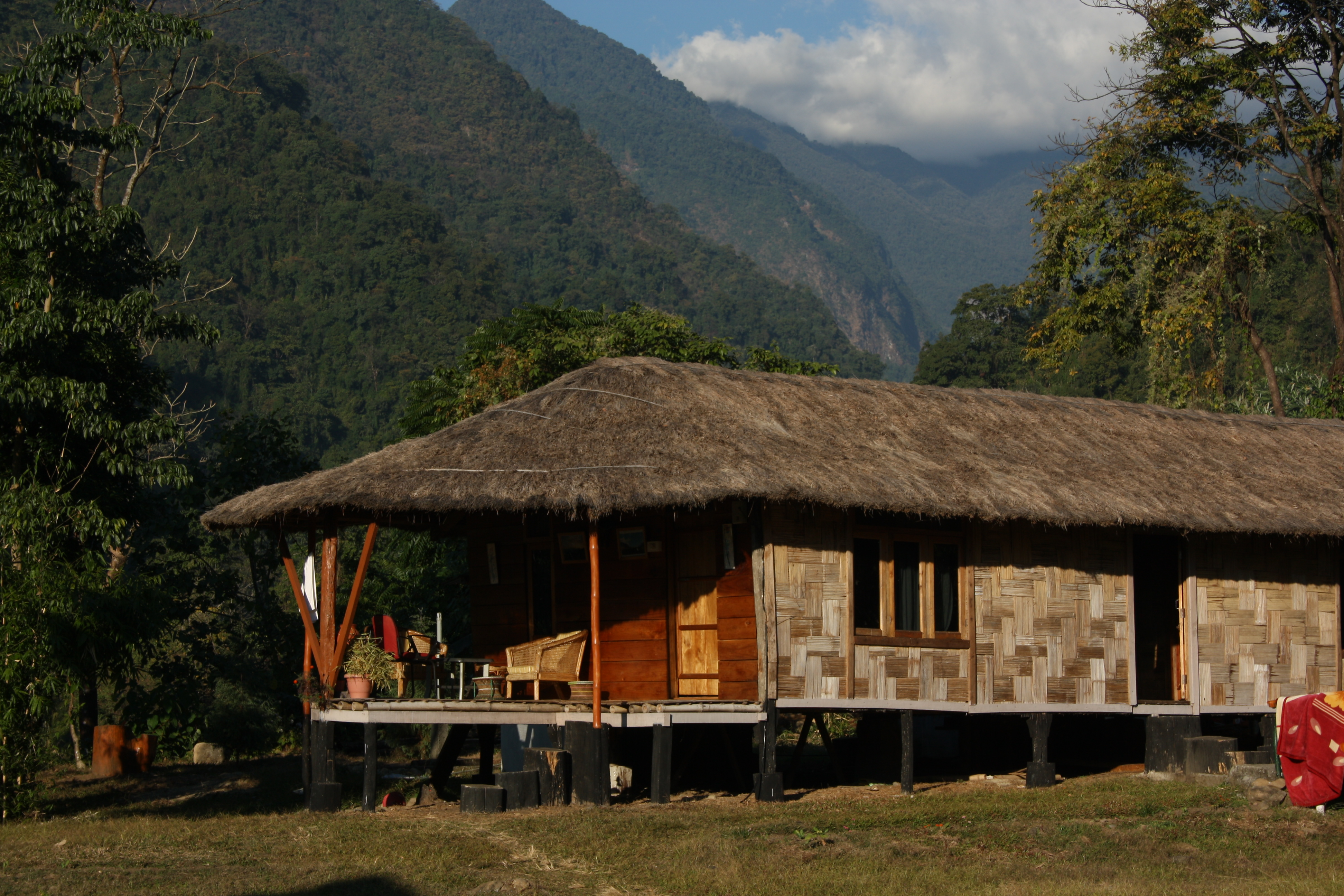 Mishmi Hills Resort at the bank of River Eze